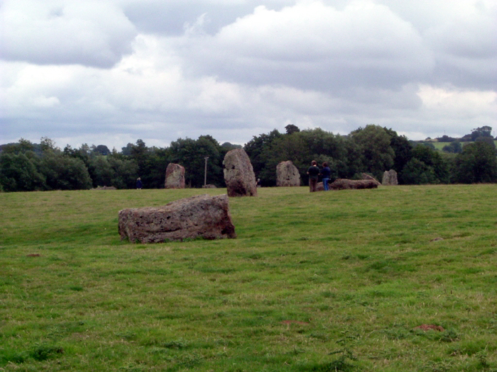 Stanton Drew stone circle.